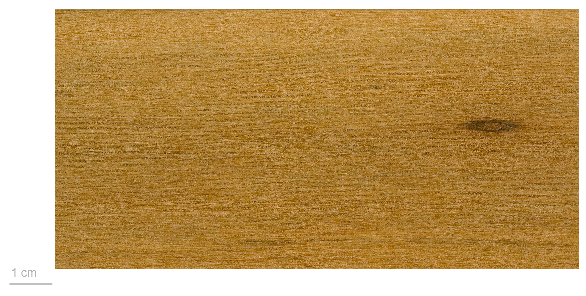 Crossostylis grandiflora, wood